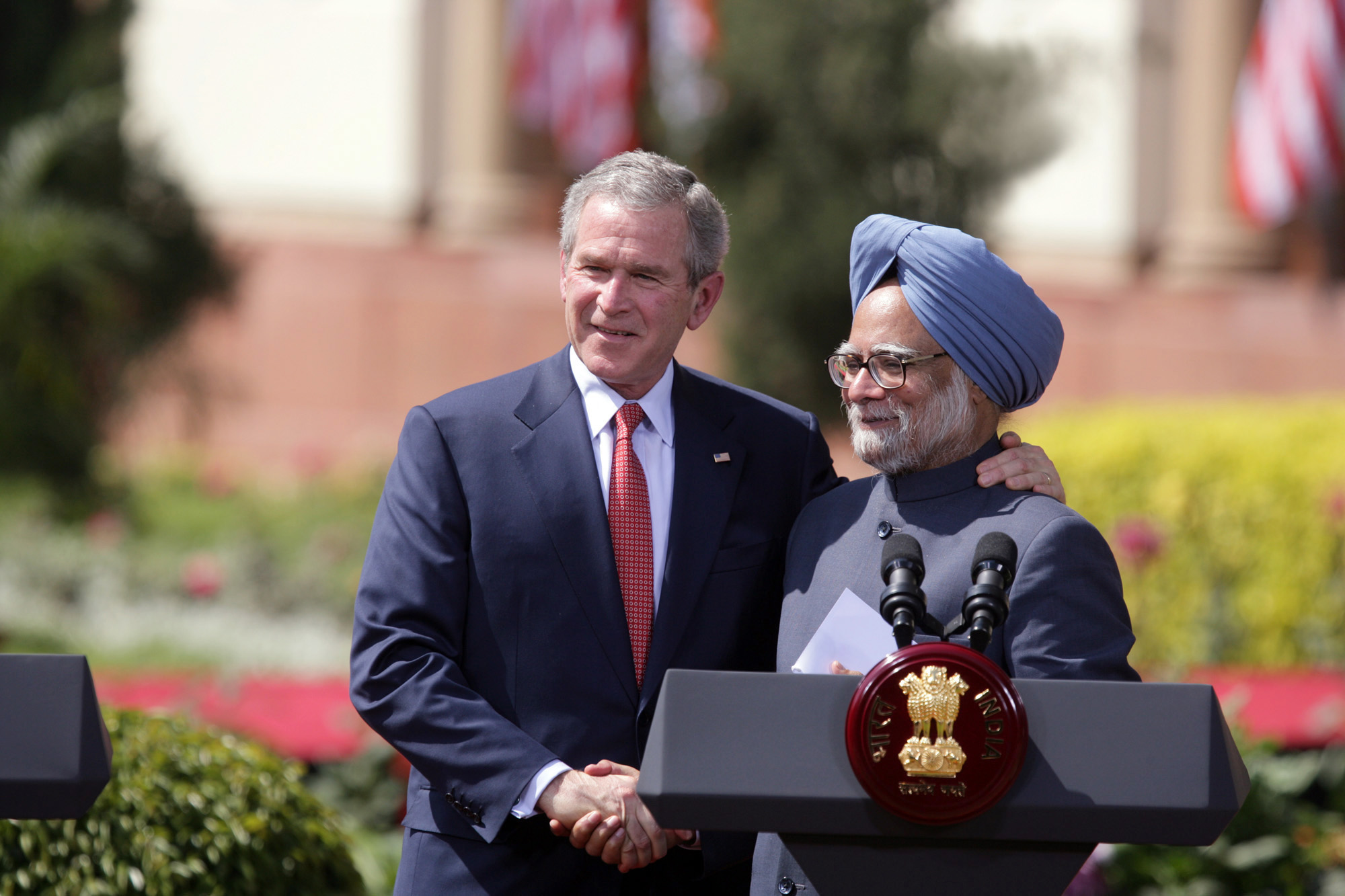 President George W. Bush and India's Prime Minister Manmohan Singh exchange handshakes Thursday, March 2, 2006, after their press availability at the Hyderabad House in New Delhi.